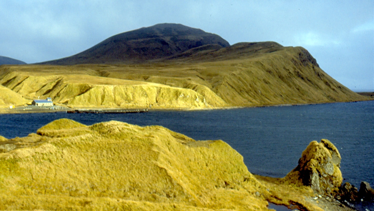 This picture of Adak Island's tundra was taken while I was stationed at the Naval Security Group Activity in 1990.